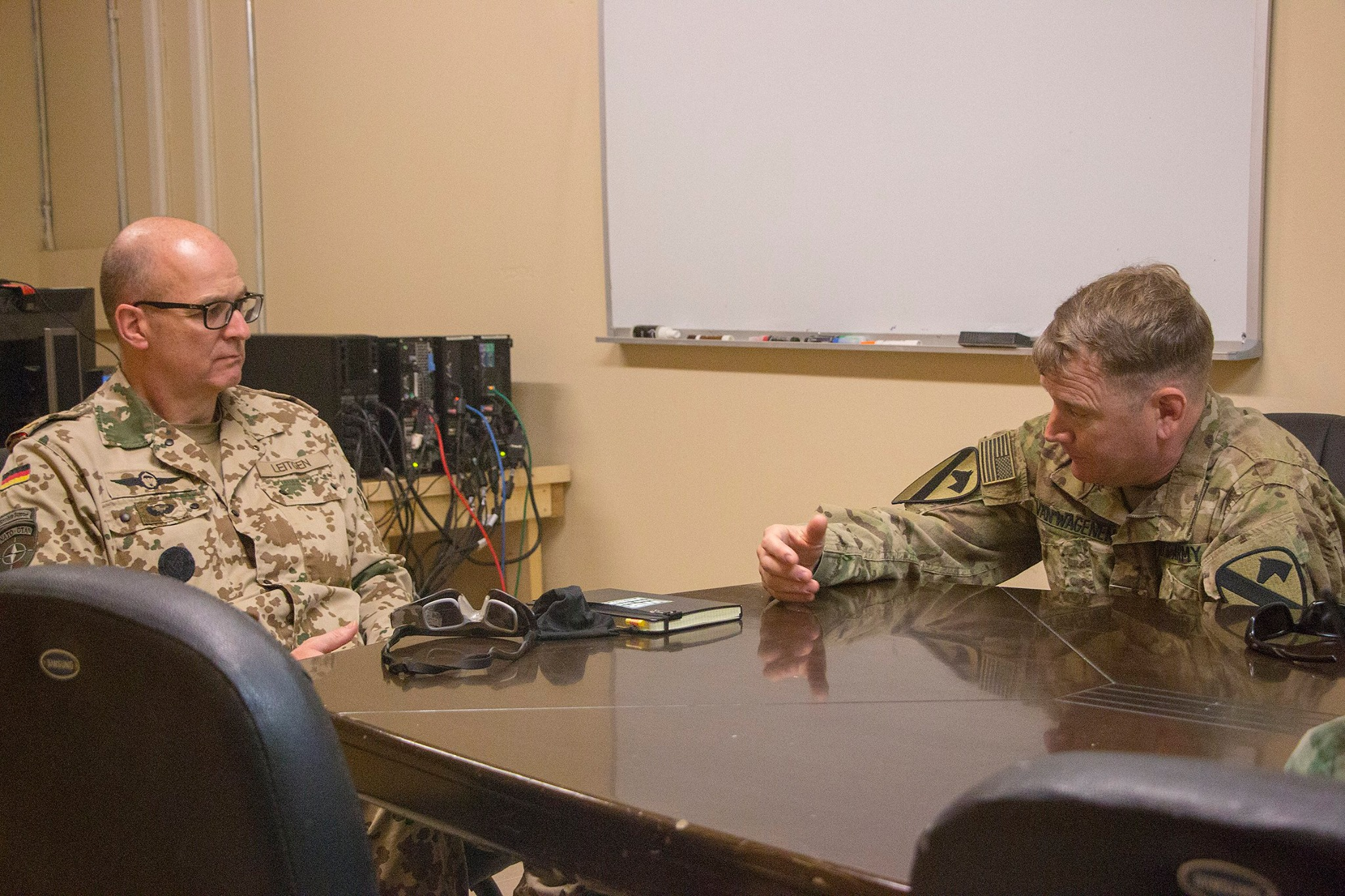 PAKTIYA PROVINCE, Afghanistan - German Army Brig. Gen. Rene Leitgen, branch head of the combined joint training at Resolute Support, visited FOB Lightning, May 9. He attended the graduation of Afghan soldiers and police officers from the Collective Training Cycle on FOB Thunder. This marks the fourth training cycle where the Afghan National Police have been included in the training. While at FOB Lightning, Leitgen also met with Col. Matthew J. Van Wagenen, the incoming commander here.